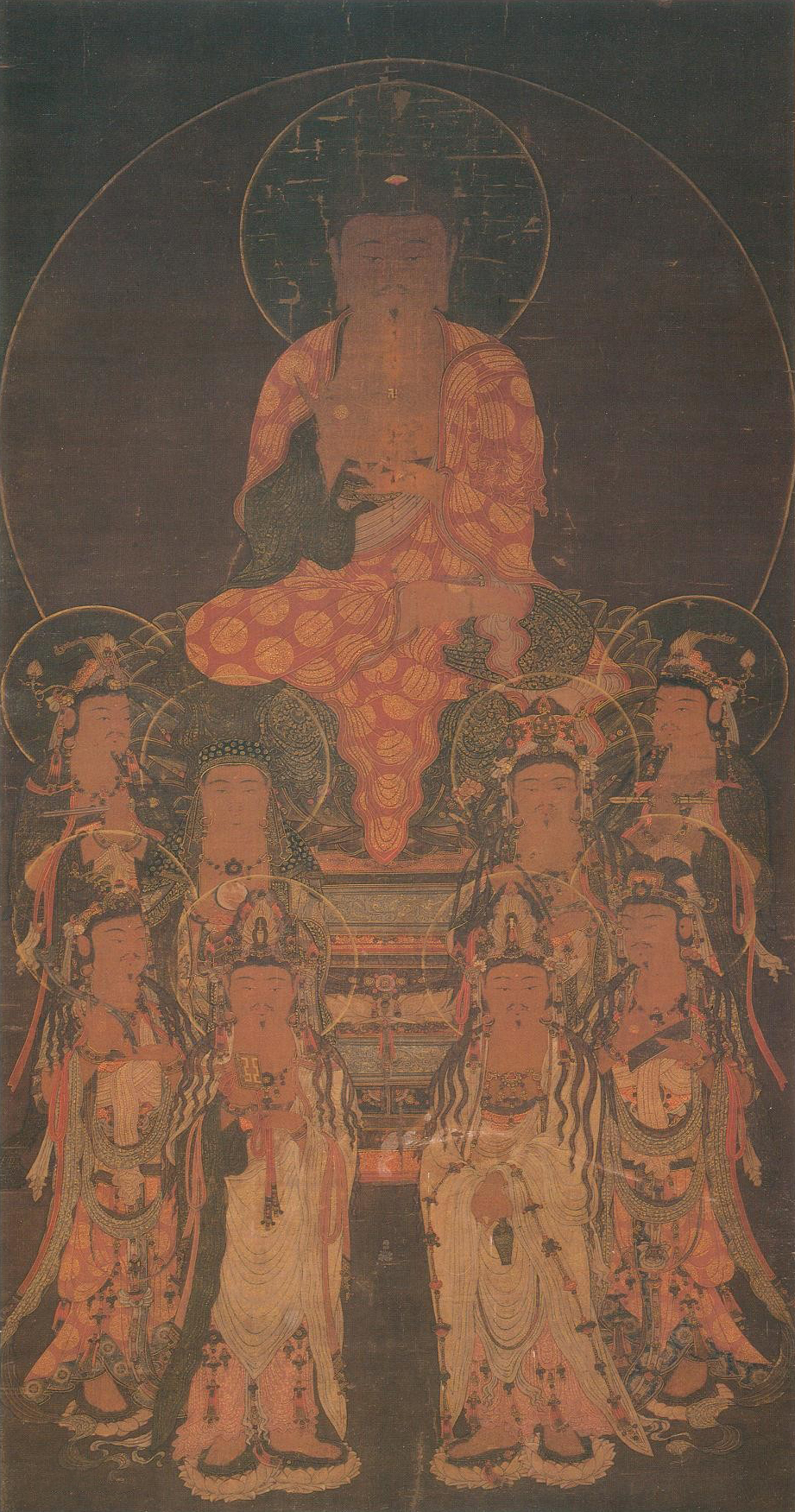 Sakyamuni with Eight Great Bodhisattvas, Matsuodera, Yamatokoriyama, Nara, Japan